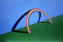 Image of the print Leaning on a Rainbow (1979) by Patrick Hughes